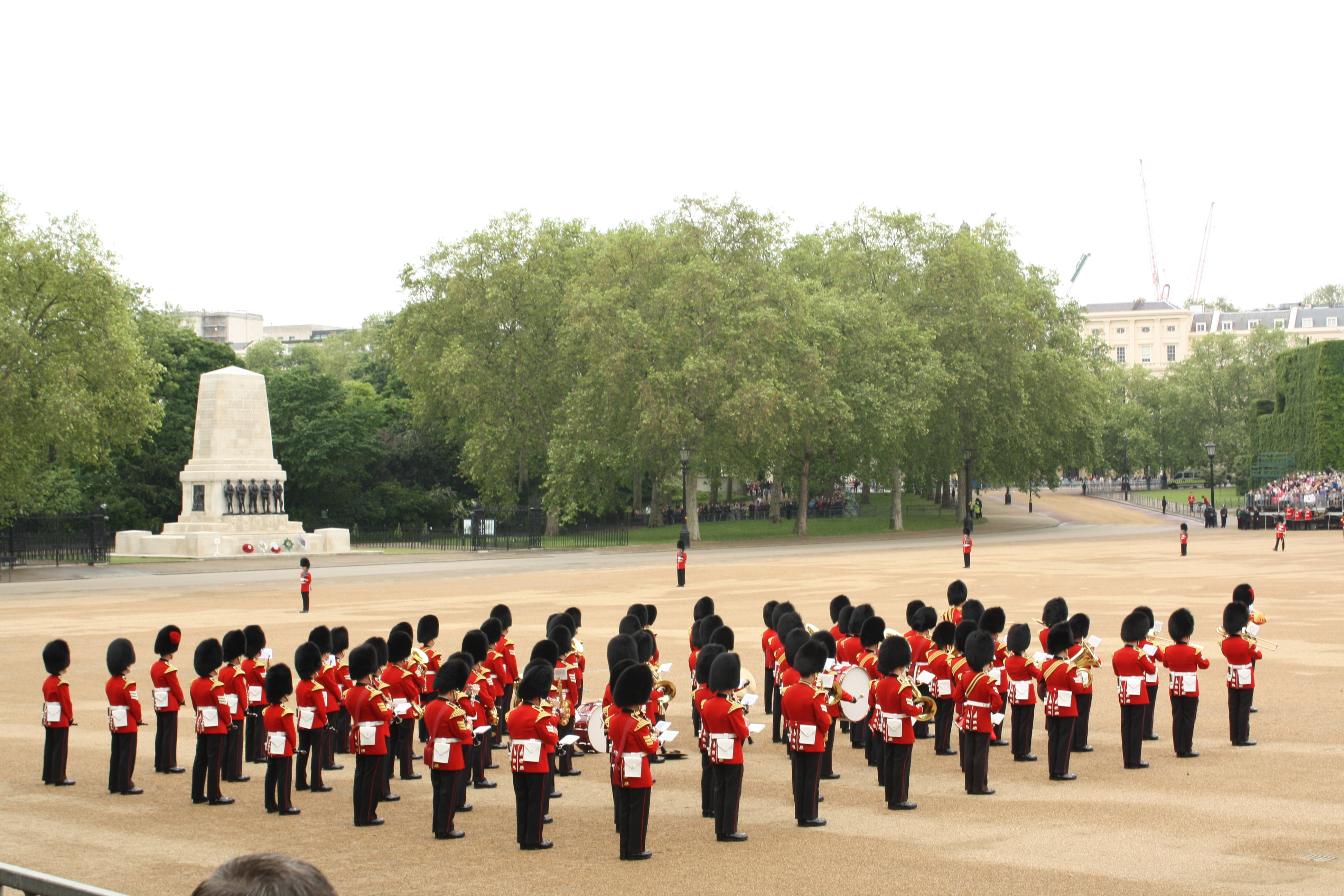 Rehearsal of the Queen's Birthday parade, 3 June 2012